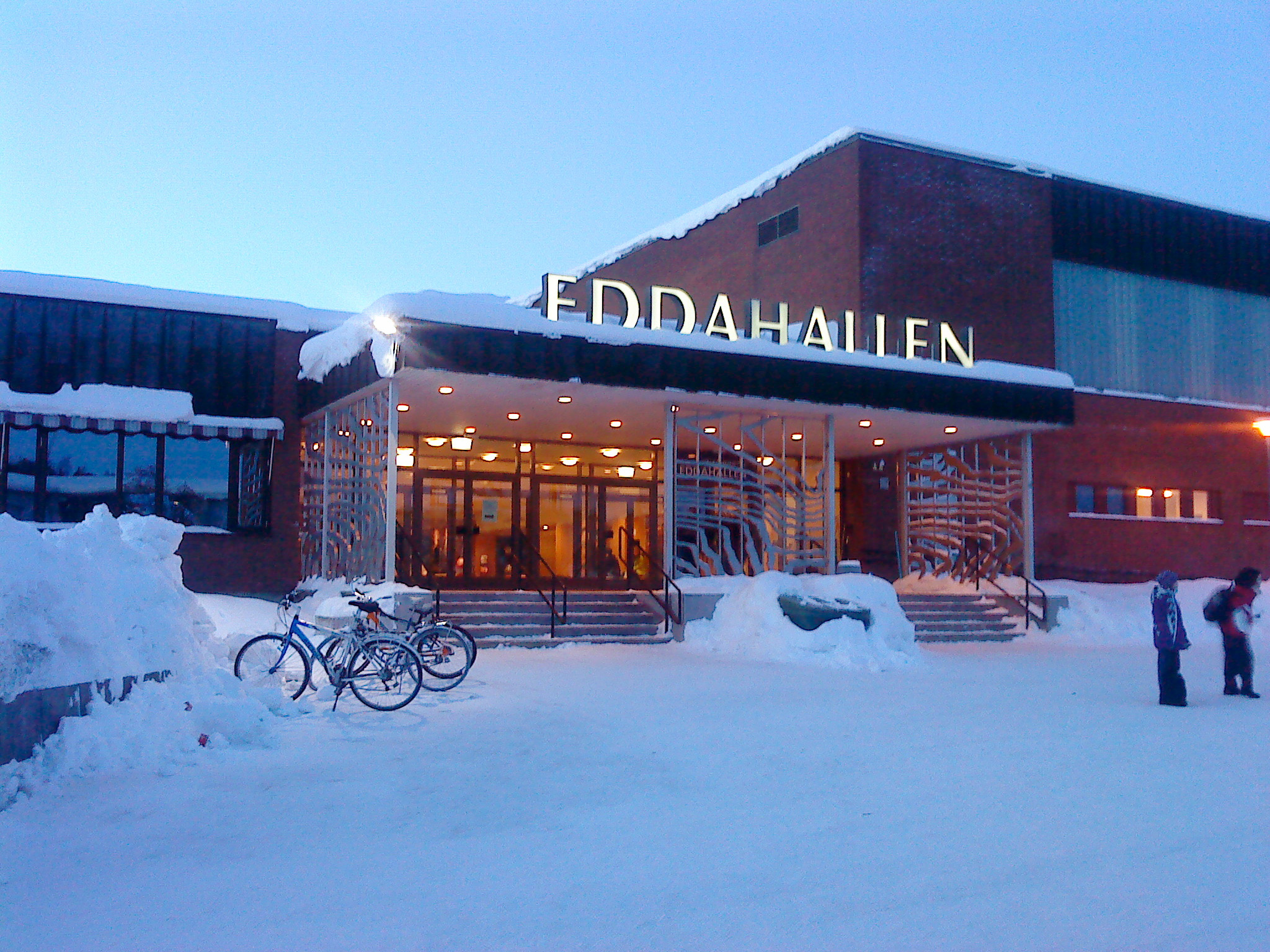 Eddahallen in Skellefteå. Swimming and sports.